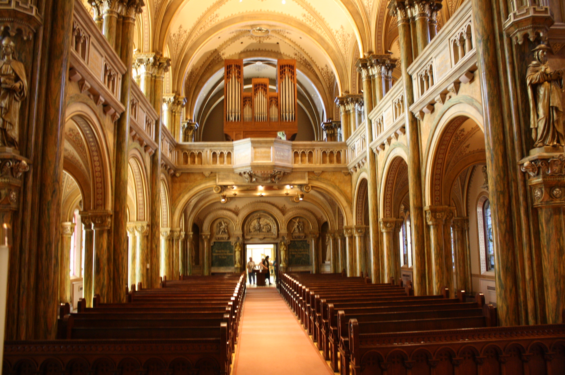 The interior of the Maria Angelorum Chapel inside the St. Rose of Viterbo Convent. It is listed on the National Register of Historic Places. The building was built between 1900 and 1905, so all artwork is in the public domain in the United States.